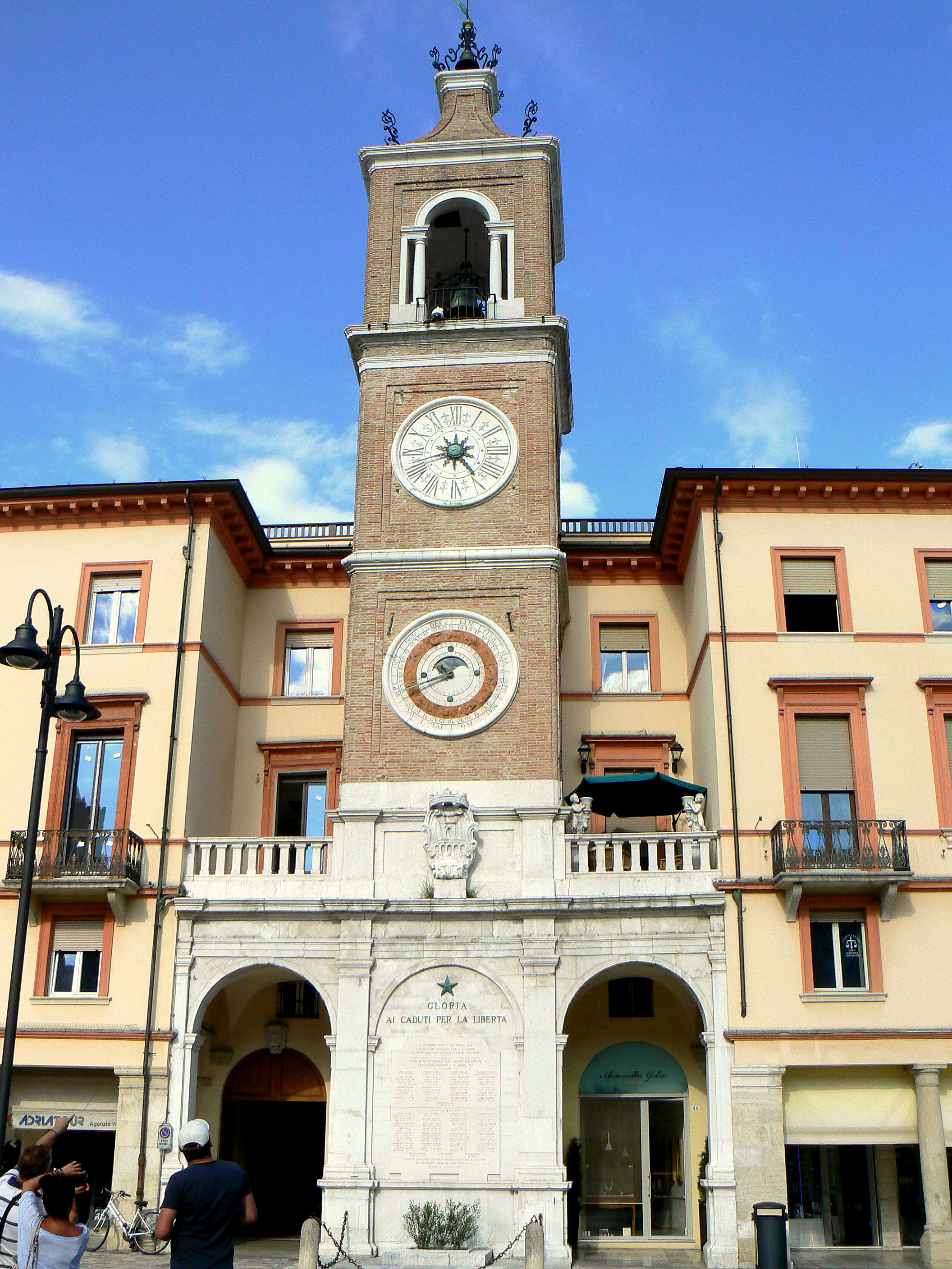 Torre dell'Orologio in Rimini This is a photo of a monument which is part of cultural heritage of Italy.